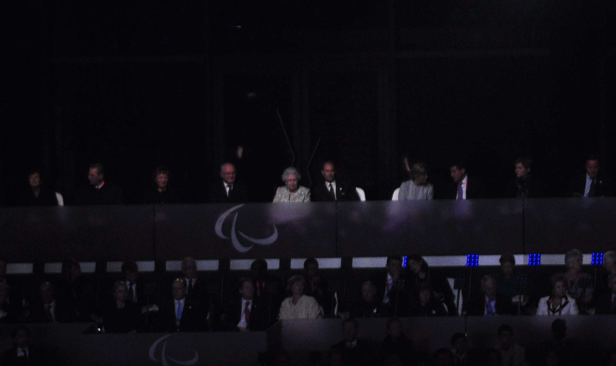 The Queen was on the opposite site of the stadium from us, so at the limit of my lens. She made a slightly less dramatic entrance to this ceremony, compared to the Opympic opening